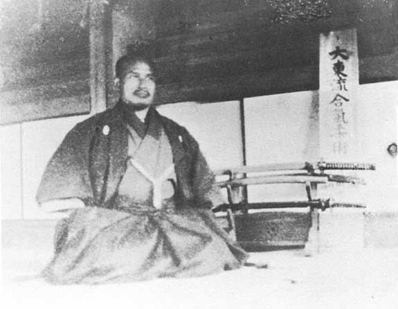 1922 image of Morihei Ueshiba seated in seiza in his Ayabe dojo.